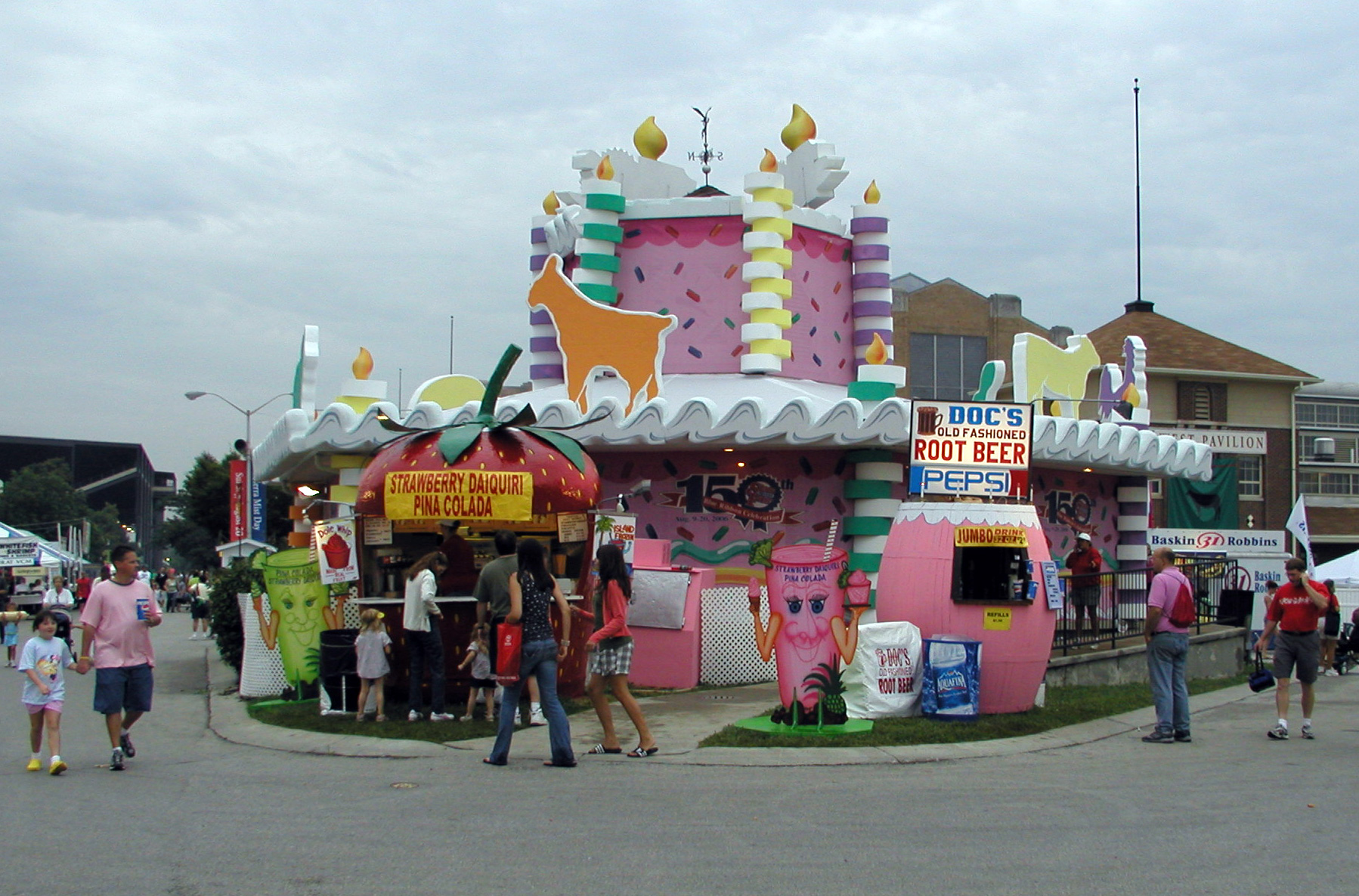 A building at the Indiana State Fair designed as a birthday cake in commemoration of the fair's 150th anniversary. Photo taken August, 2006 by User:Durin